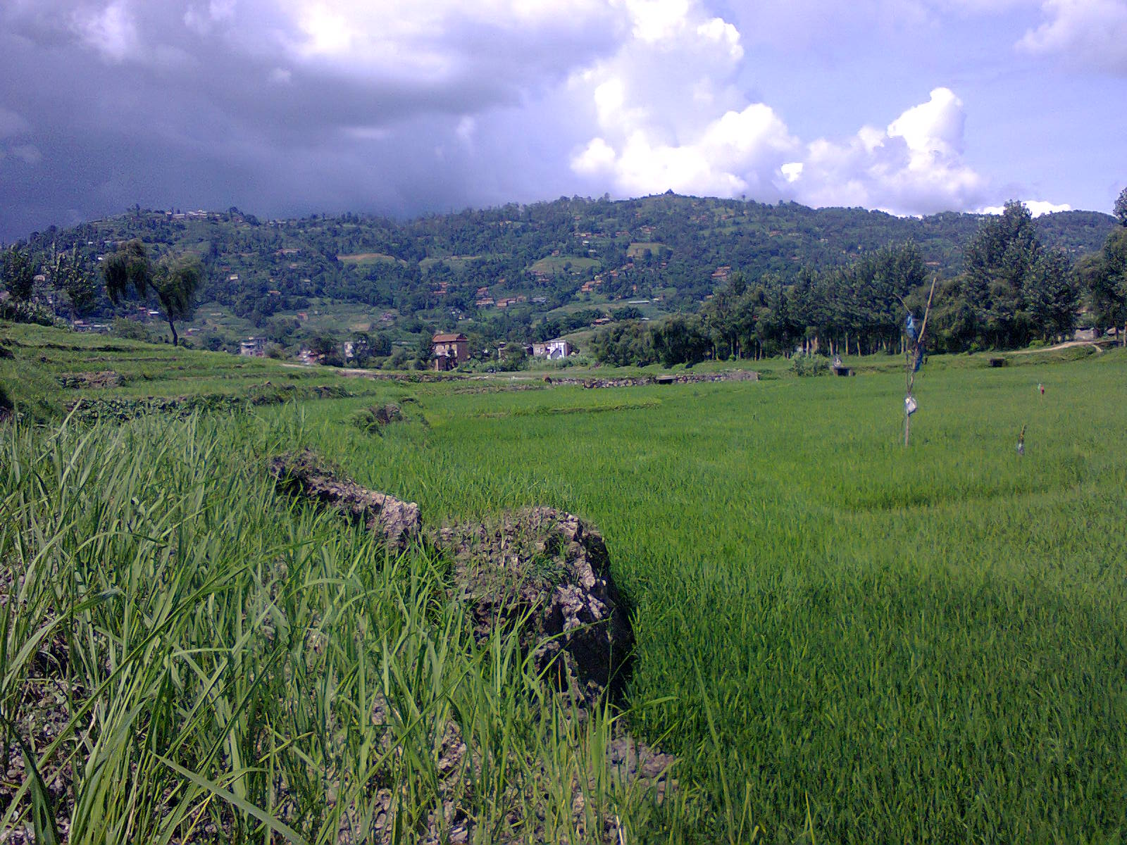 After Plotting Rice Plant